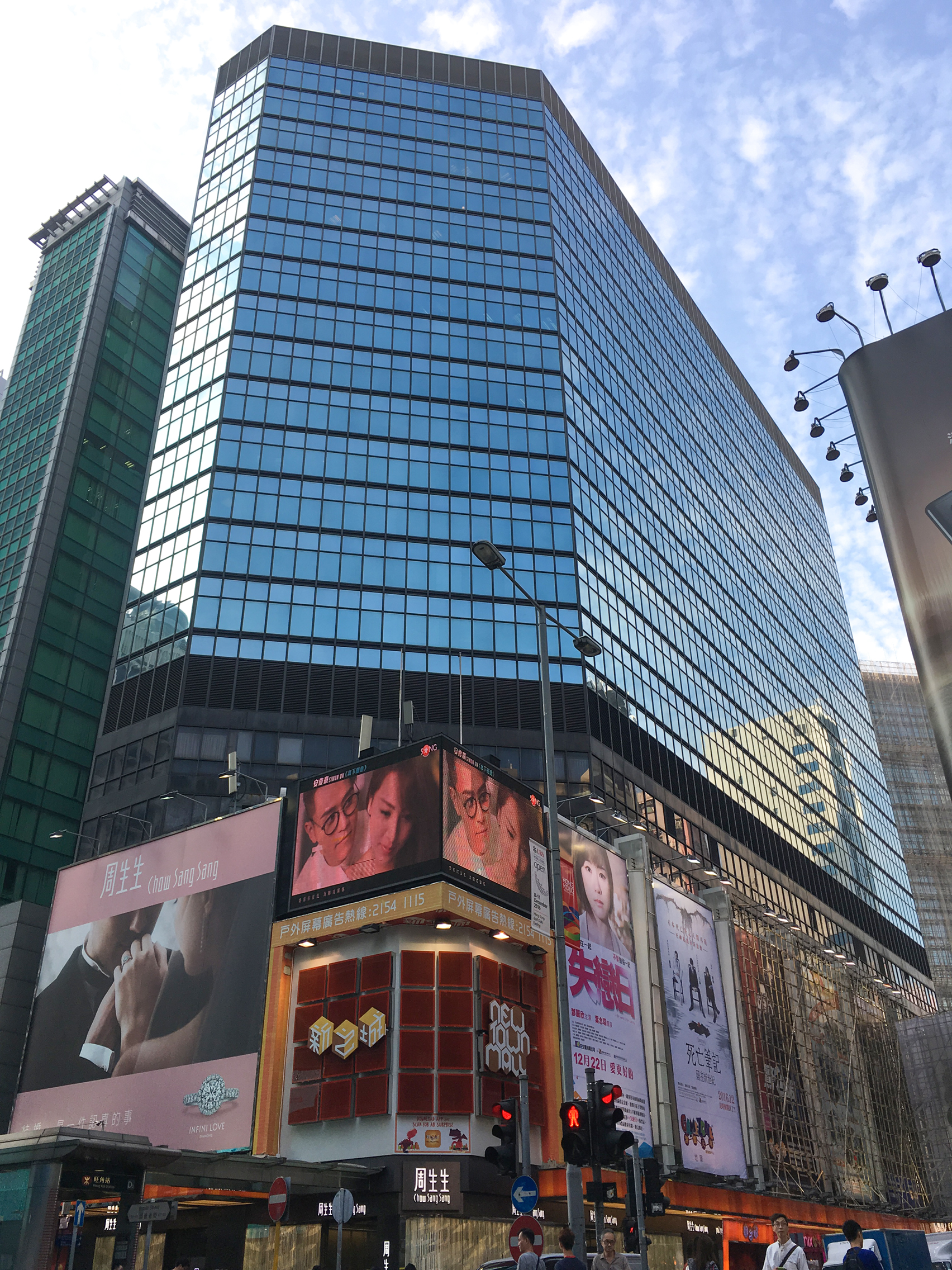 Argyle Centre Phase1